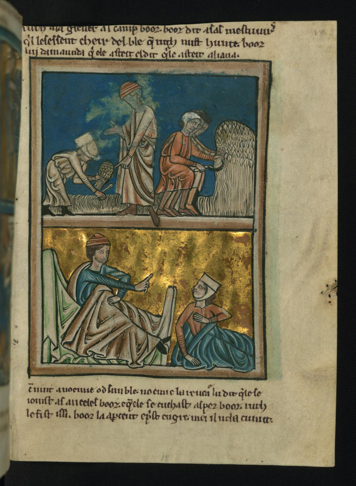 Top and Bottom images: These images from Walters manuscript W.106 depict scenes from the story of Ruth. Naomi and her daughter-in-law Ruth were destitute. Ruth went to glean barley, following the reapers, in the fields of Boaz, who was a kinsman of Naomi's late husband. After Boaz shows Ruth kindness by allowing her to have some of the barley, Ruth sleeps at Boaz's feet and is taken to bed with him.